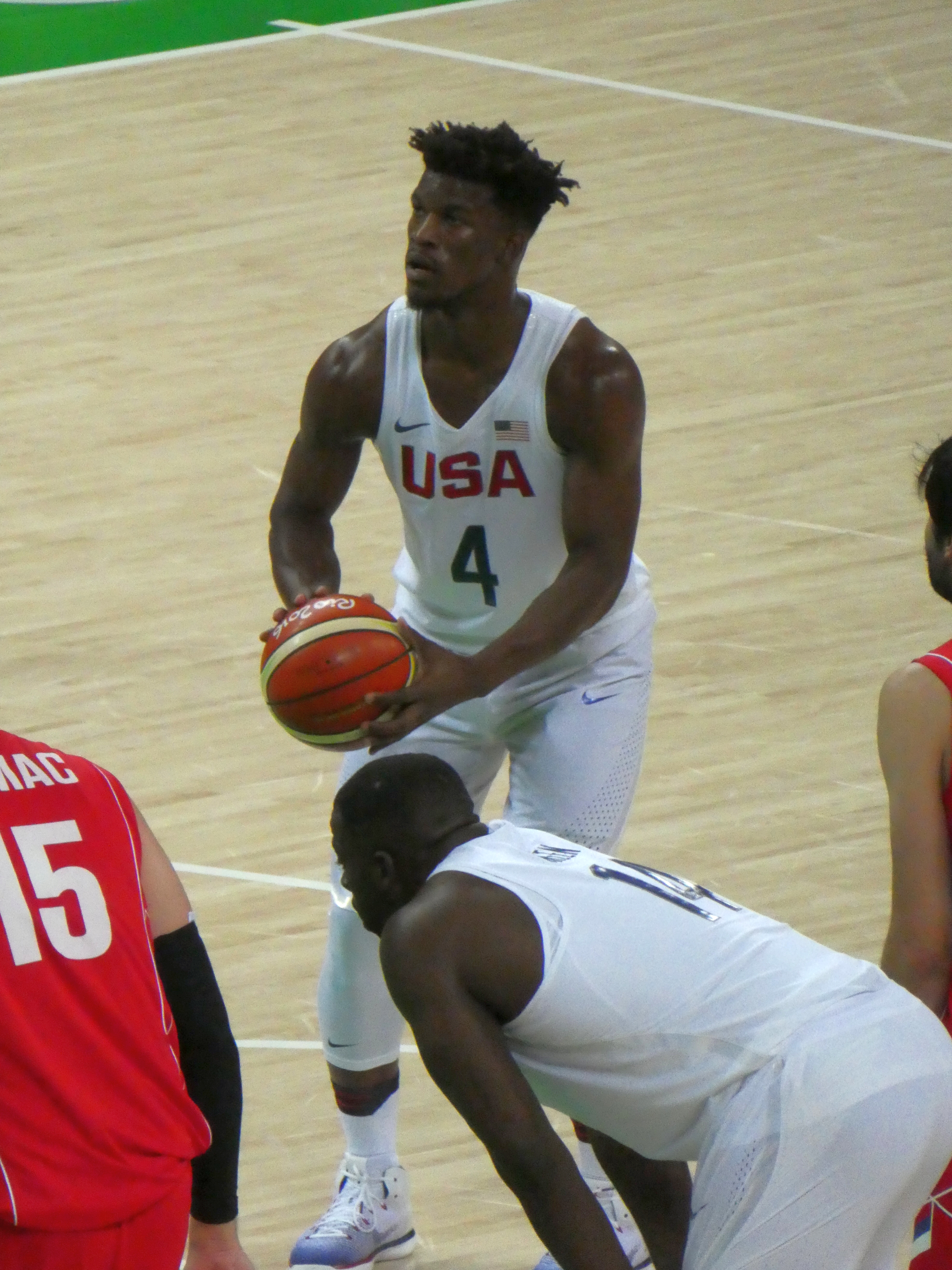 Jimmy Buttler taking a free-throw for USA Olympic basketball team in a match against Serbia